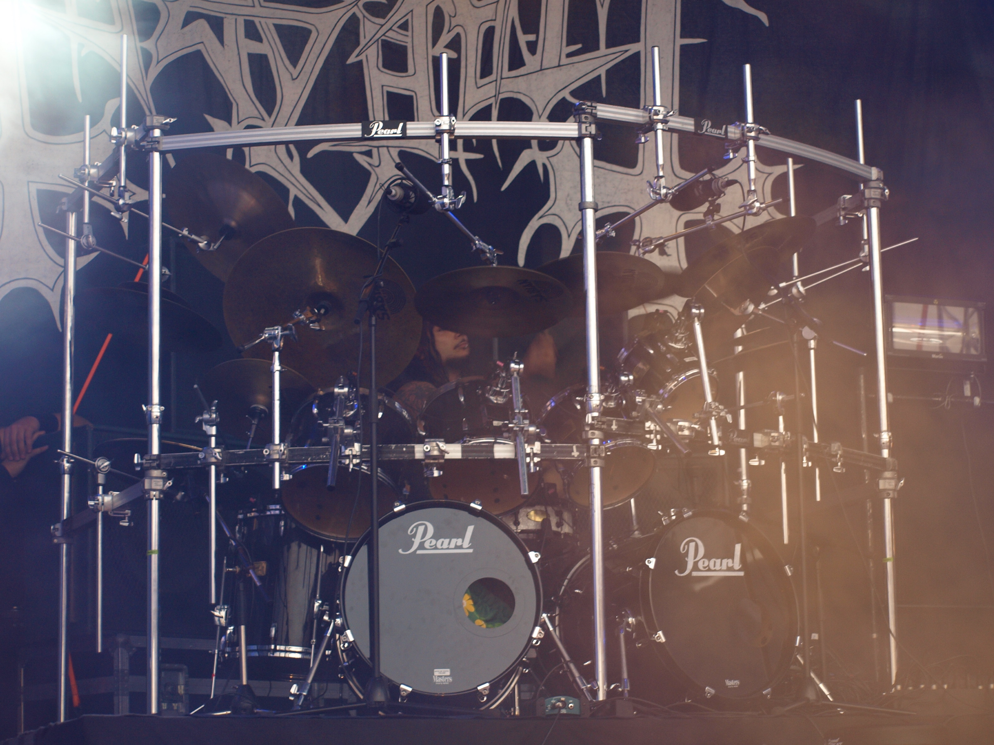 Norwegian black metal band Mayhem live at Jalometalli 2008 in Oulu.